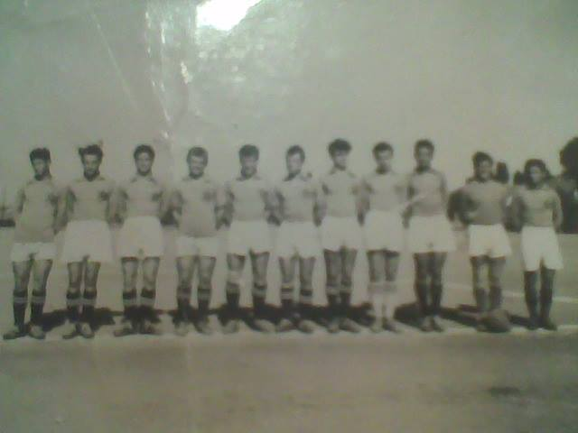 "Ботев"-Горна баня...1956г.